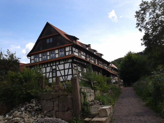 Fromer Gotha Forester's house in Dörrberg, Gräfenroda in Thuringia, Germany